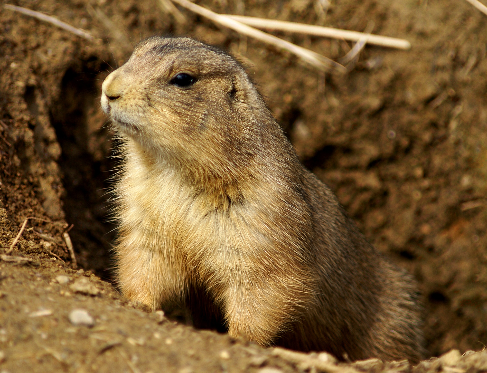 A black-tailed prairie dog at the National Zoo in Washington, D.C., looks out from a system of burrows, characteristically scanning the horizon. On average, these rodents grow to between 12 and 16 inches (30 and 40 cm) long, including their short tails.